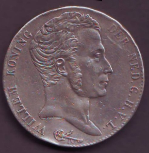 Three guilders coin from the Netherlands, 1820, rear side with portrait of King William I